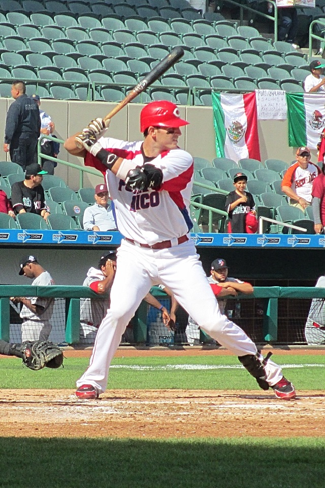 Hitting against the Dominican Republic at 2013 Serie del Caribe